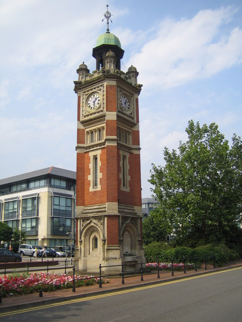 Maidenhead Clock Tower. Built in 1899 outside Maidenhead railway station.